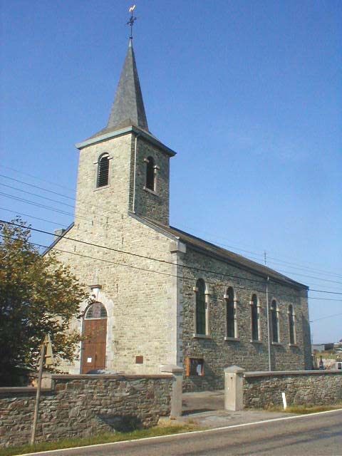 Church of Moircy Walon: Eglijhe di Moirci.